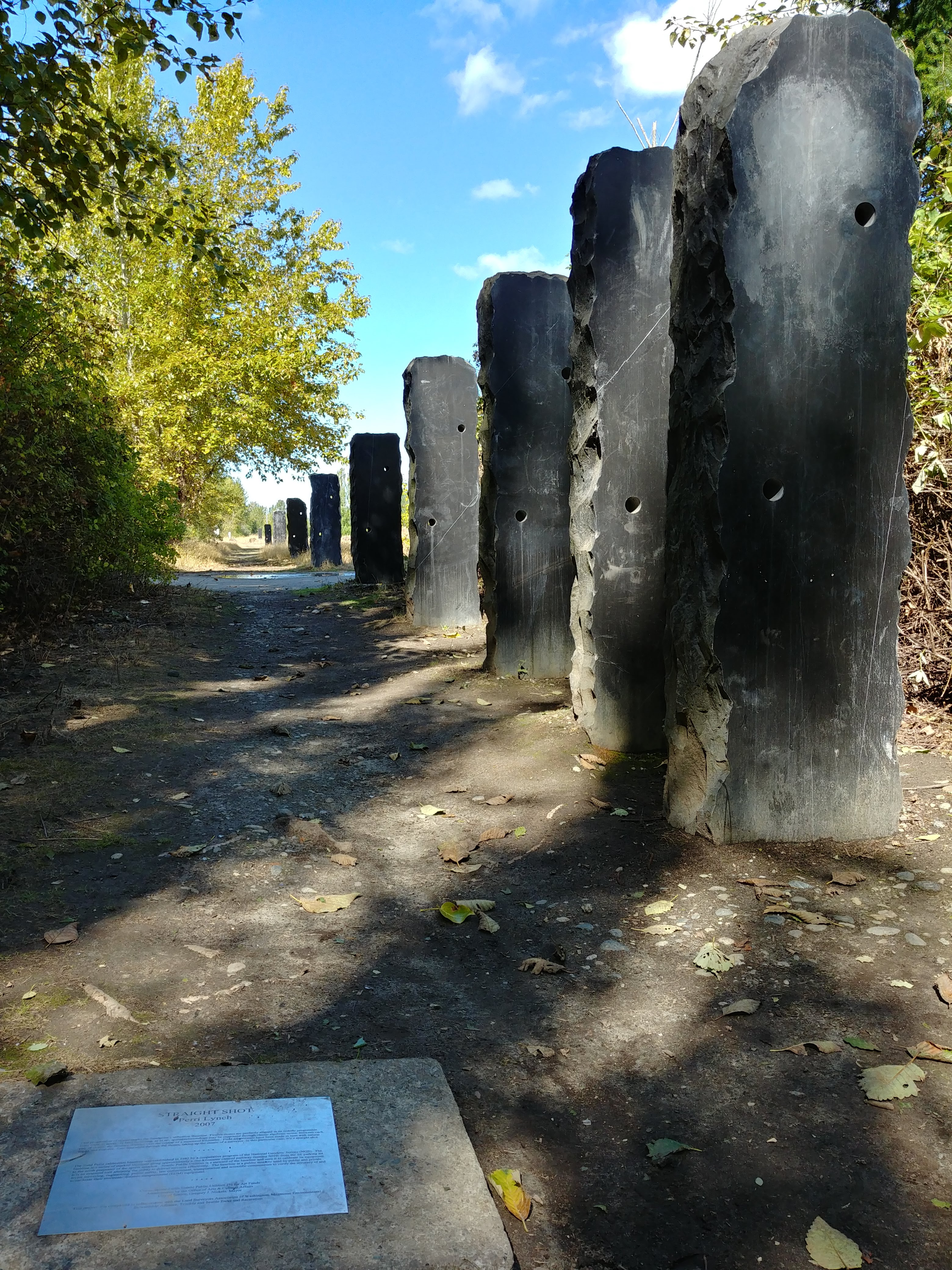 Dark stone obelisks in Magnuson Park, part of an art installation called Straight Shot